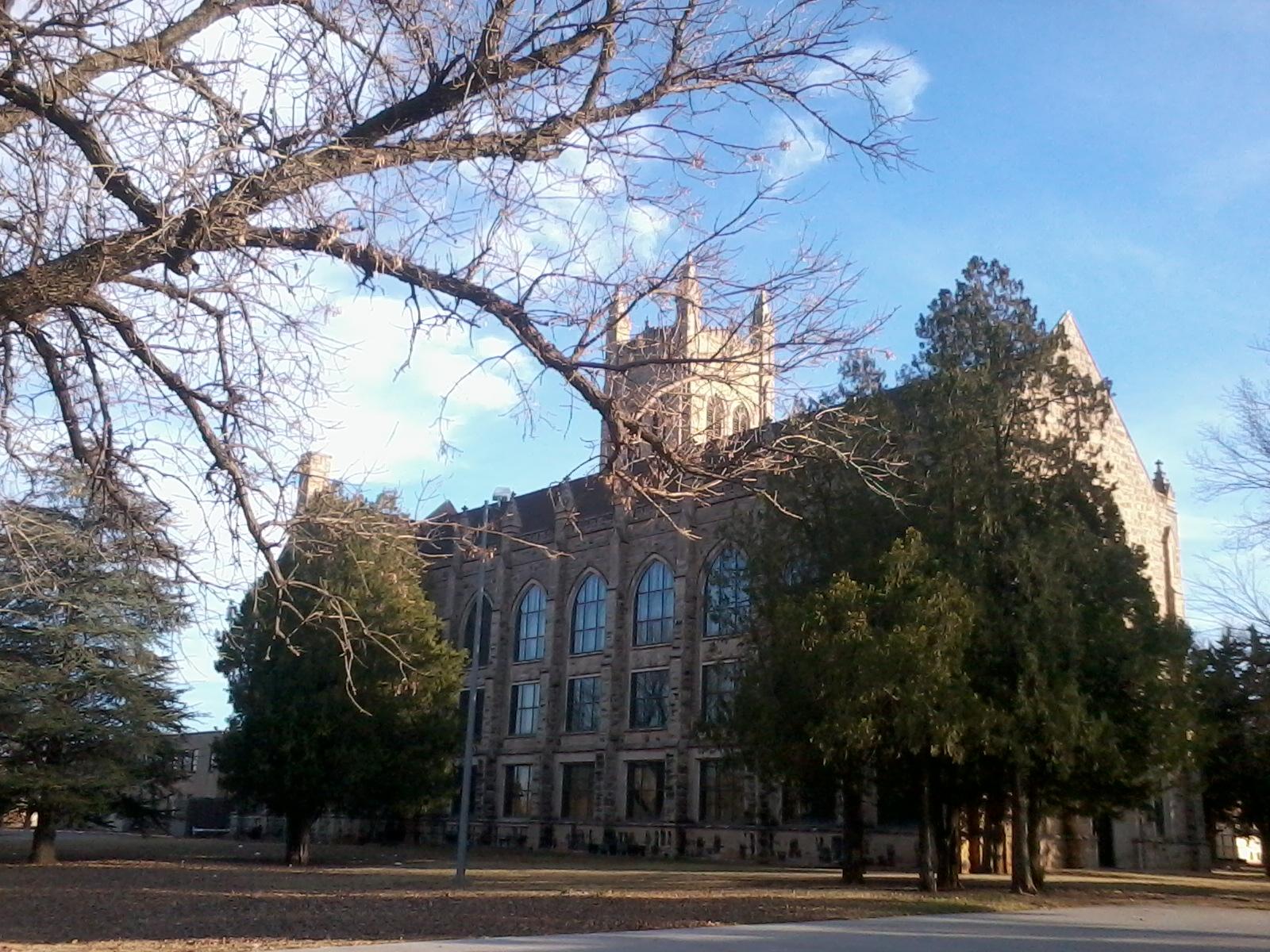 A view of the Marshall Building in Enid Oklahoma which houses the Bivens Chapel.